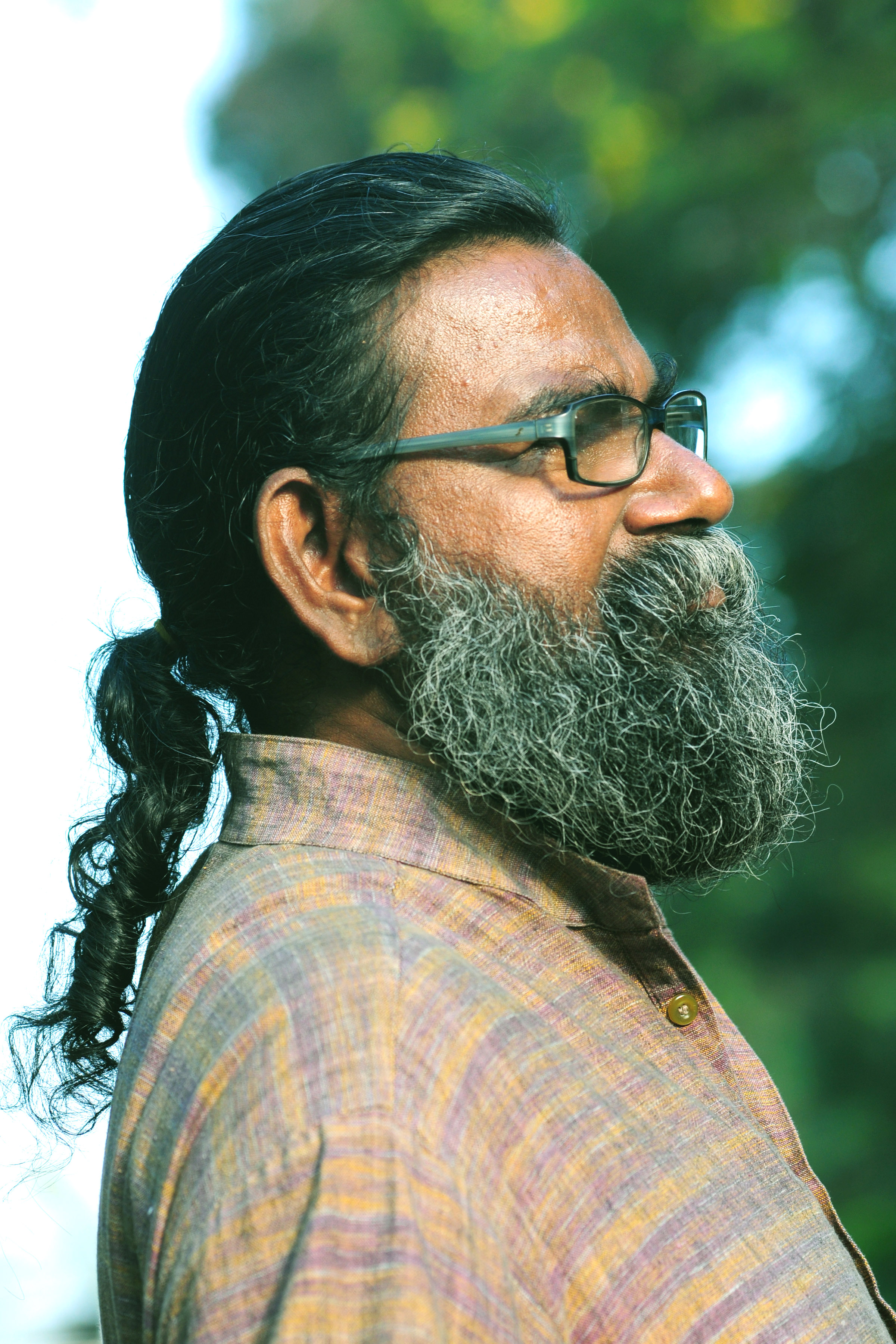 Artist Rajasekharan Other information Artist Rajasekharan Parameswaran